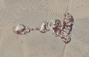 The Coleta de Dados Colles, a cluster of hills in Sputnik Planitia, Pluto.